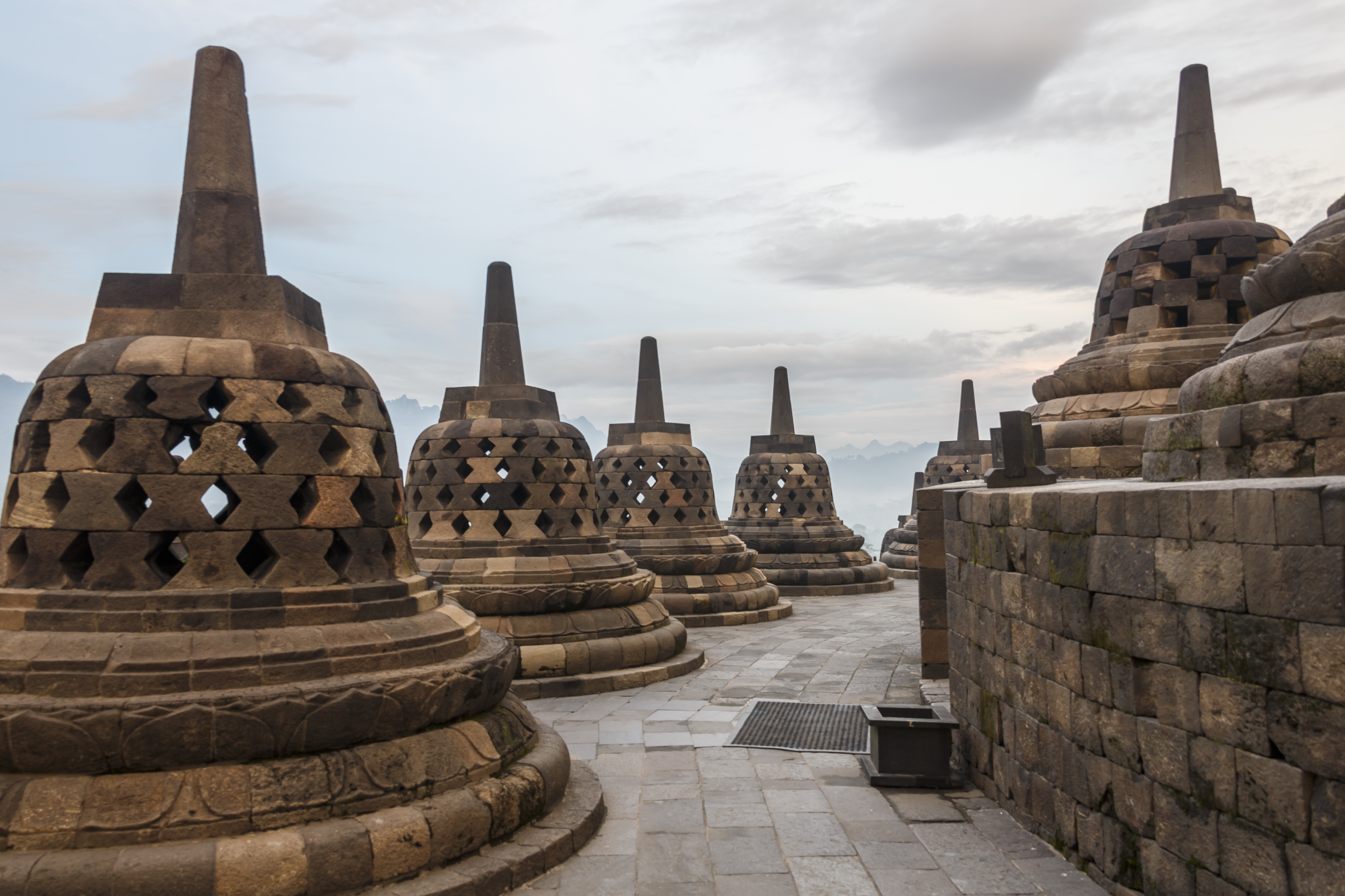 Borobudur temple Park, Indonesia: Early morning atmosphere in Borobudu Temple Park.